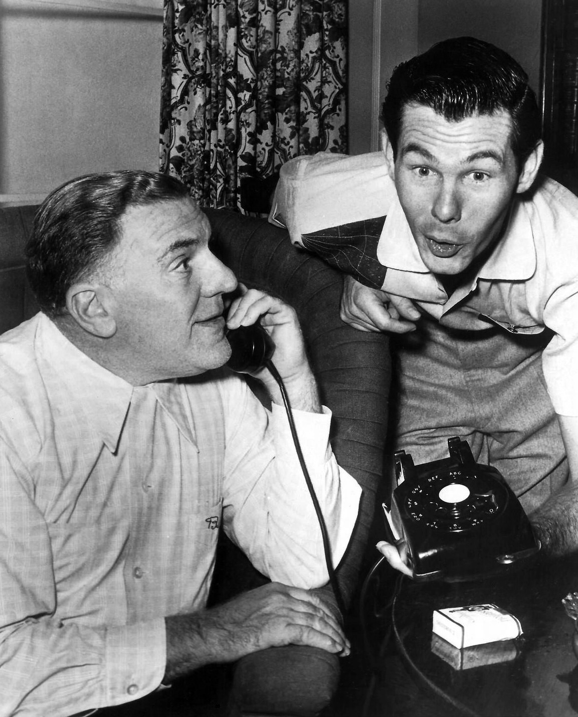 Photo of William Bendix and Johnny Carson from the television program The Johnny Carson Show. Carson hosted this interview/talk type program on CBS from 1955 to 1956.